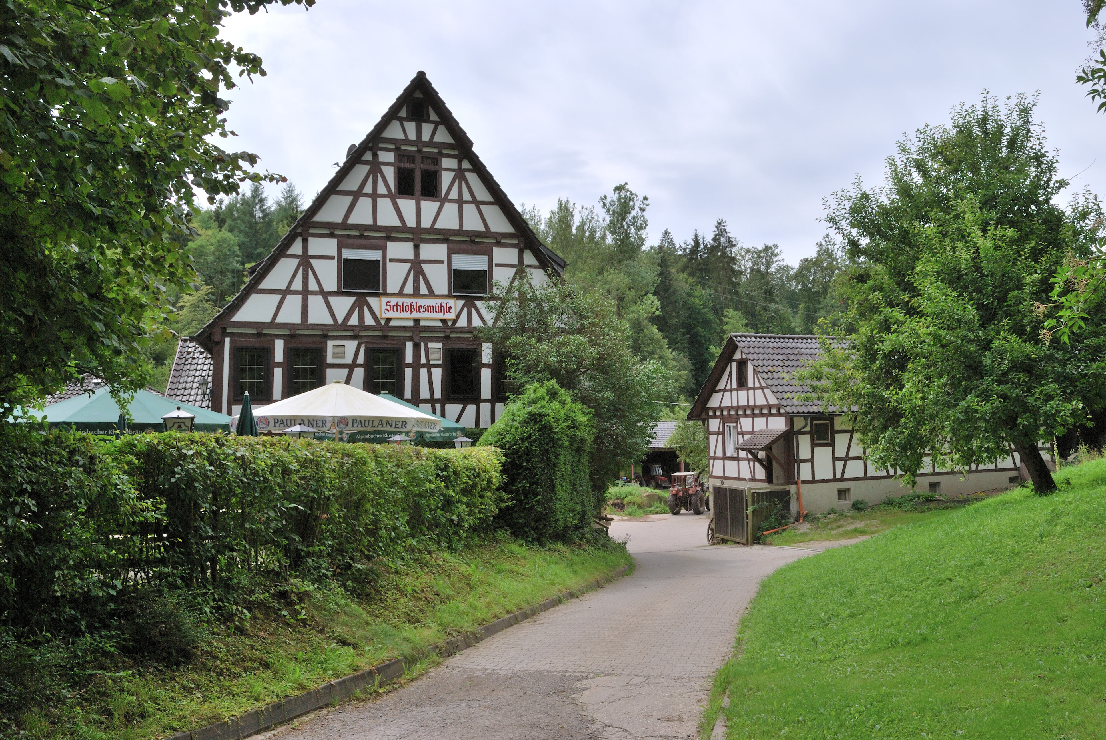 Schlösslesmühle (Schlössle-mill, a former watermill) in Siebenmühlental (Seven-mills-valley), Baden-Württemberg, Germany.